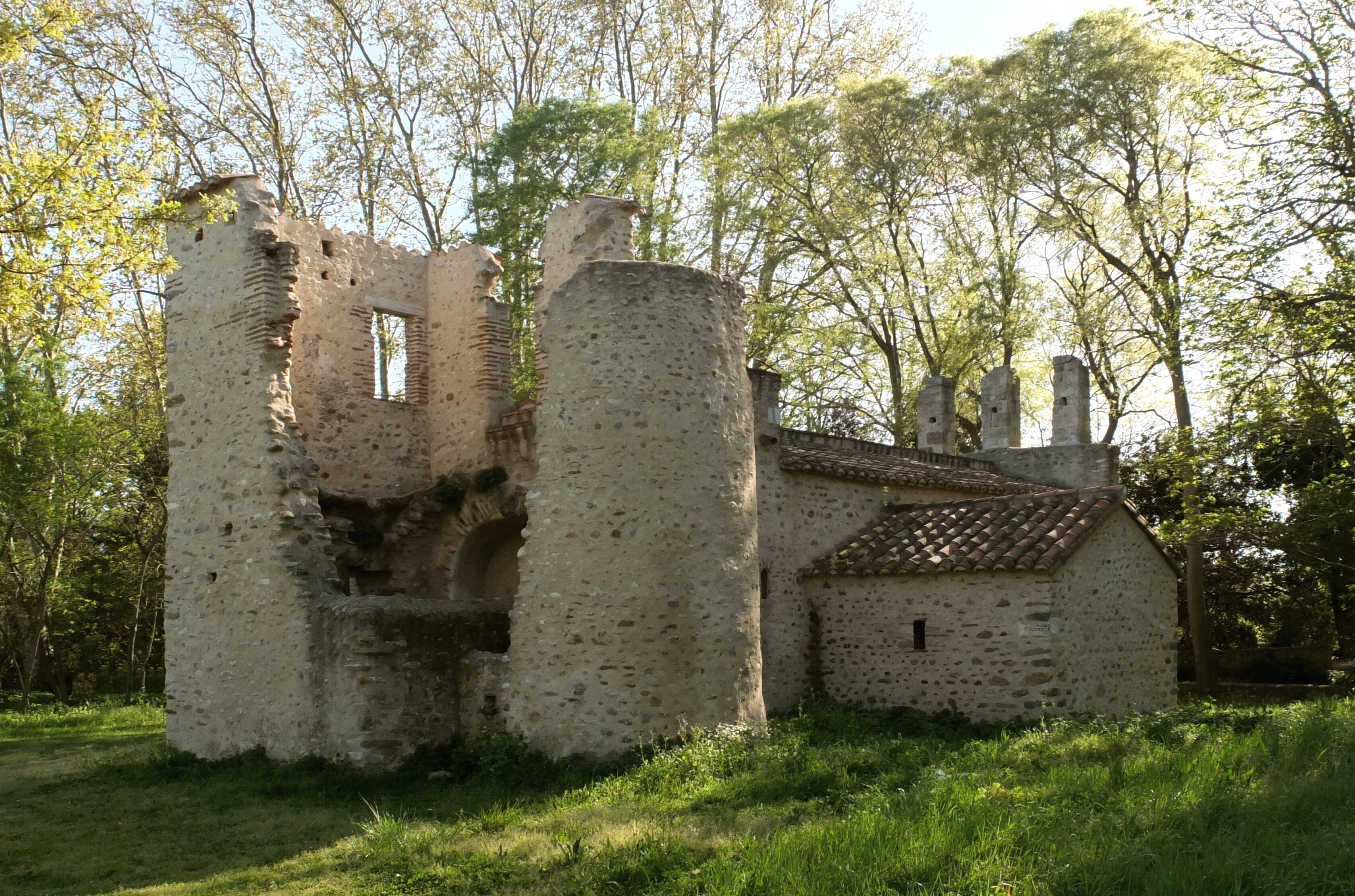 Romanesque chapel Sainte-Colombe des Cabanes, Saint-Génis-des-Fontaines, France (view from NE)